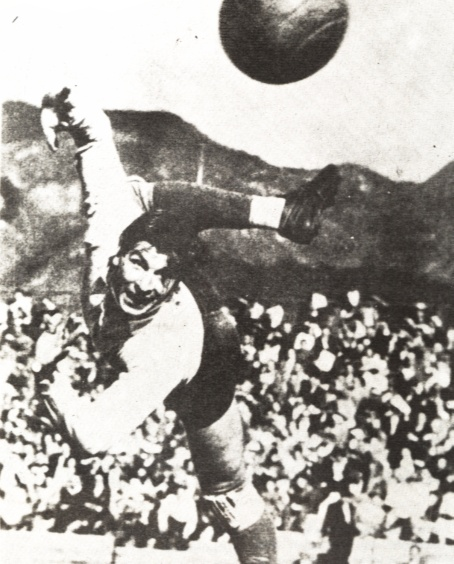 This is a photograph of Antonio Roma taken during his time with Boca Juniors in Argentina. He played his last game for the club in 1972.